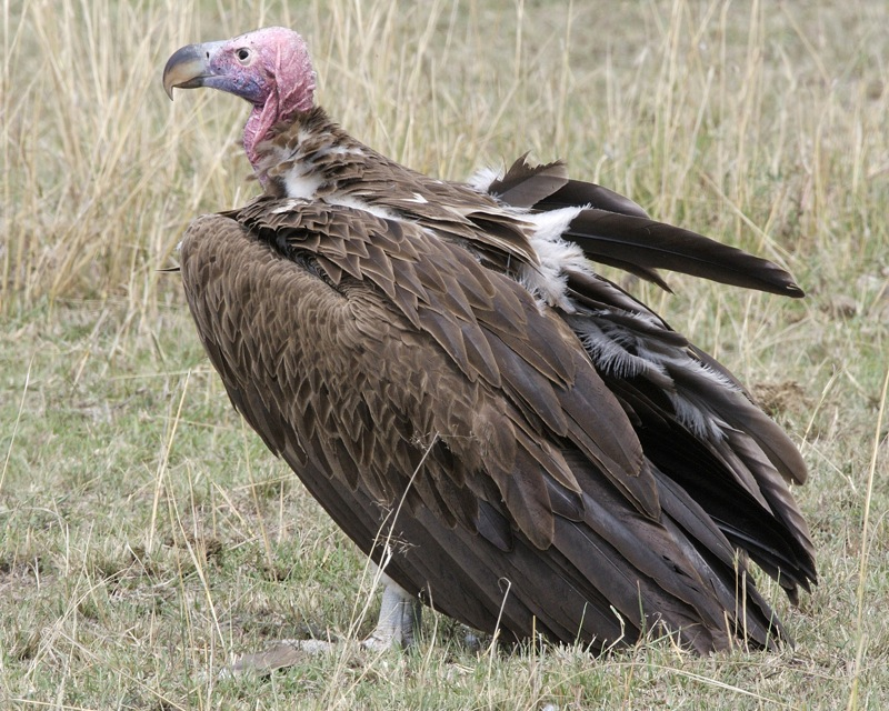 Lappet-faced Vulture Torgos tracheliotus Swahili: Tumbusi Ngusha Masai Mara, Kenya 29th. August 2008 690V1461